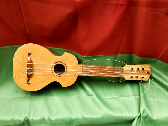 Ponputu or Khonkhota by Jo Dusepo